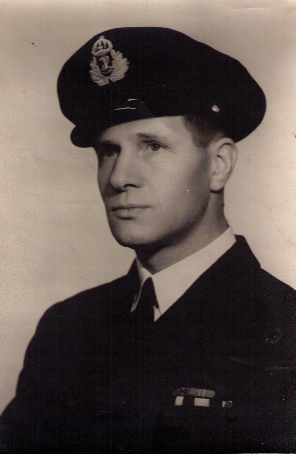 The most highly decorated navel offiser of the world war II